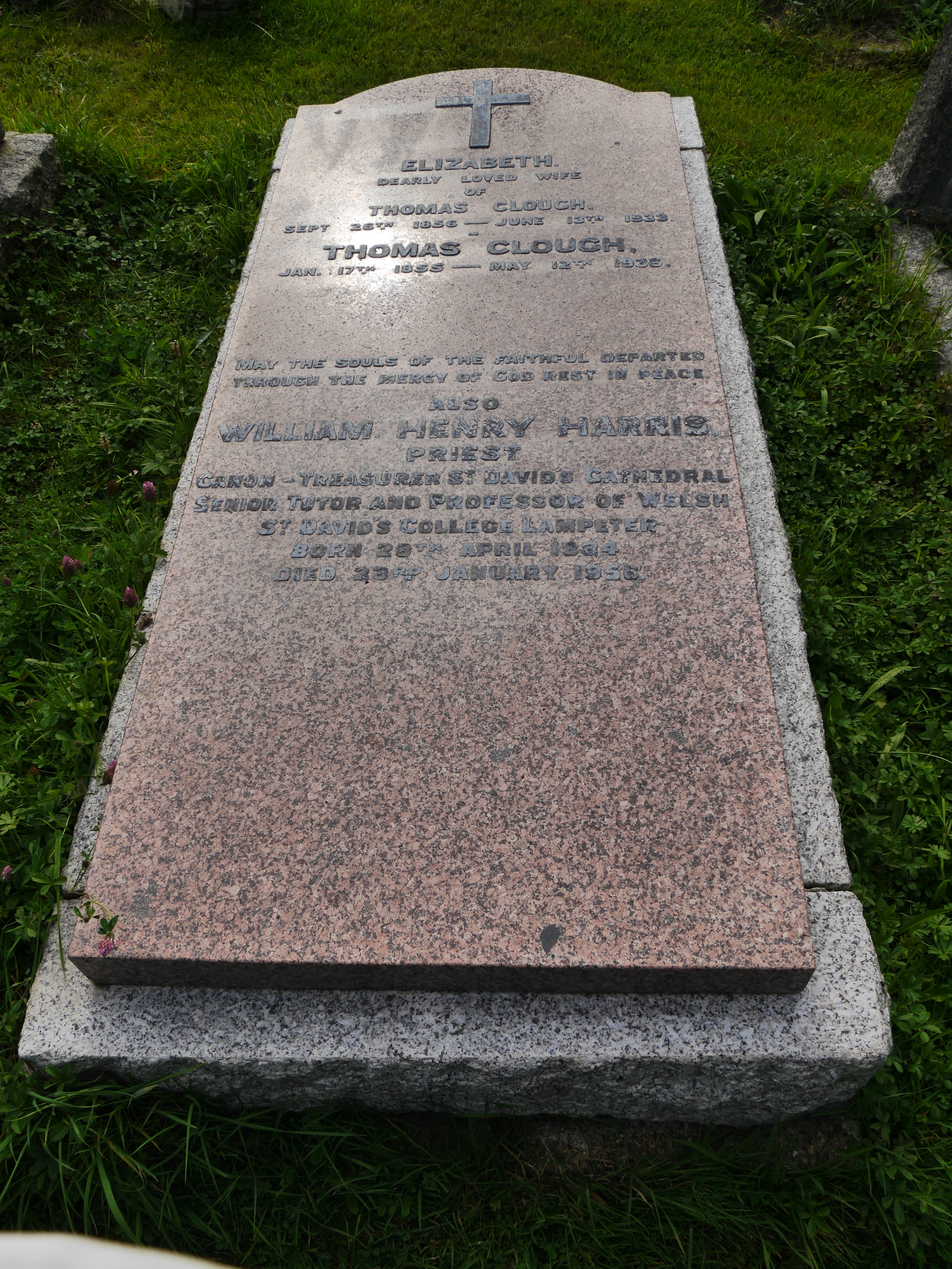 St Martin's Church, Ruislip, 2015